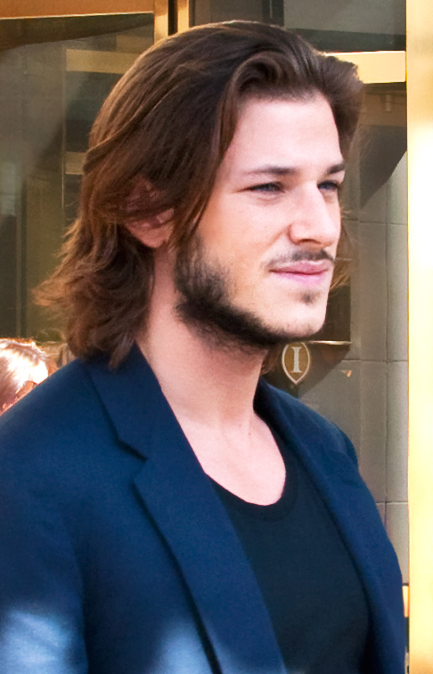 Gaspard Ulliel at the 2009 Toronto International Film Festival.